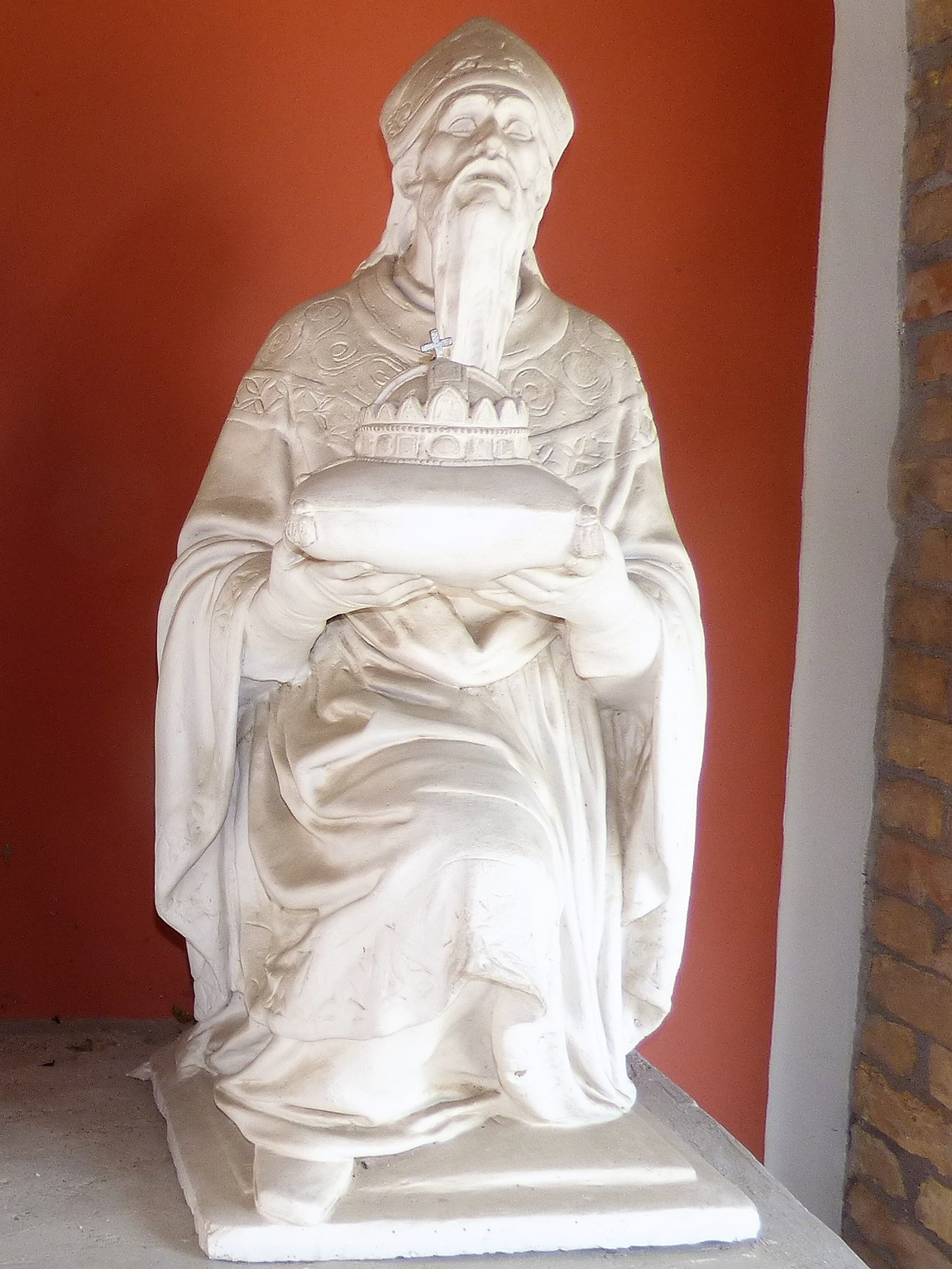 Boldog Asztrik szobra a székesfehérvári Bory-várban, Bory Jenő alkotása